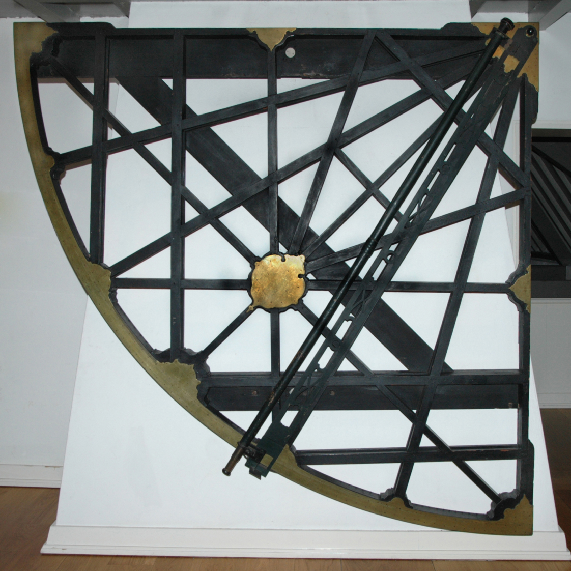 Museum Boerhaave, Leiden - Quadrant was manfuctured to order by the cartographer Willem Janszoon Blaeu for the Leiden professor Willem Snel van Rooyen, better known as Snellius (1580 -1626)